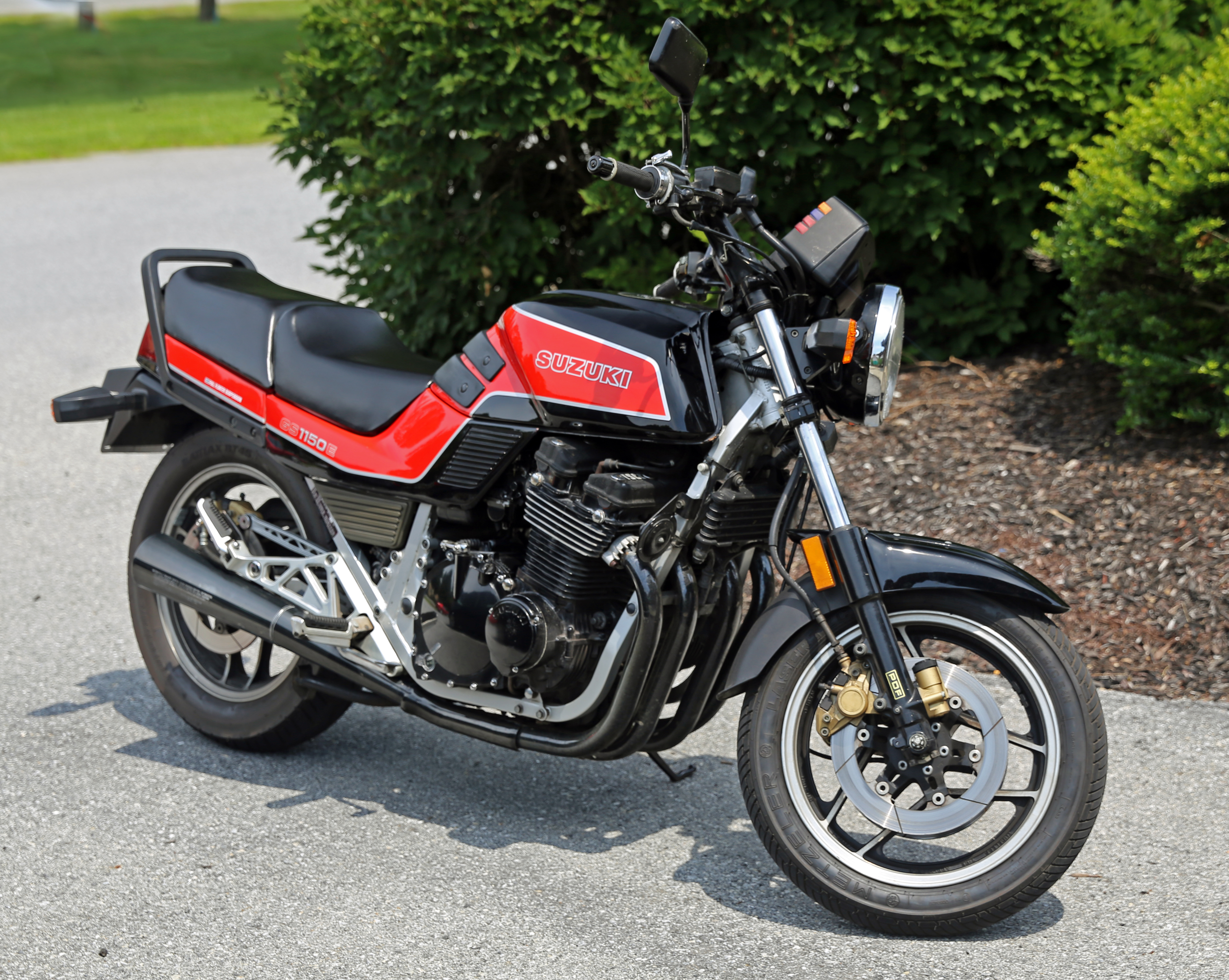 A 1985 (October 1984 build date) Suzuki GS 1150 E, model code GV71A. Since 1980, the bike known as the GSX 1100 everywhere in the world had been sold as the GS 1100 in the US. In March 1984 the engine size was increased to 1135cc (with power increasing from 111 to 124hp). While still called the GSX 1100 everywhere else, the US market name was changed to GS 1150. The "E" model is the unfaired version; there were also ES and EF versions on offer, with bikini fairing or full fairing respectively.